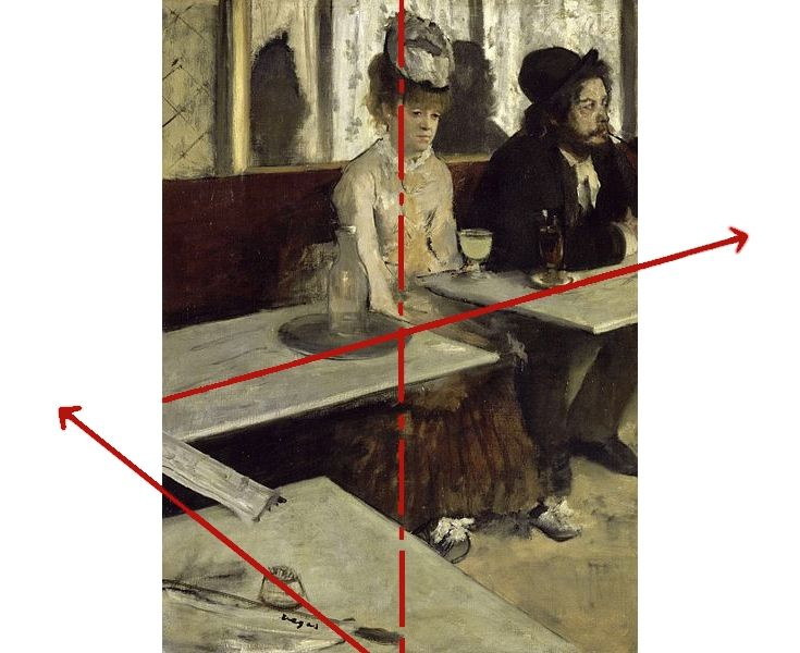 Schema prospettico de L'assenzio